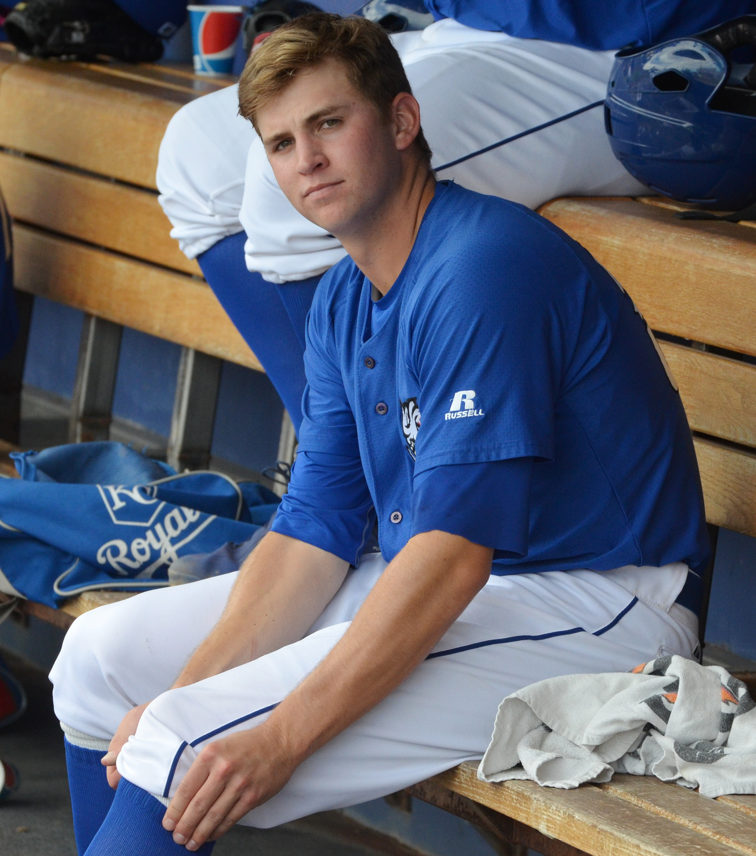 Sam Selman with the Omaha Storm Chasers at Werner Park in 2019